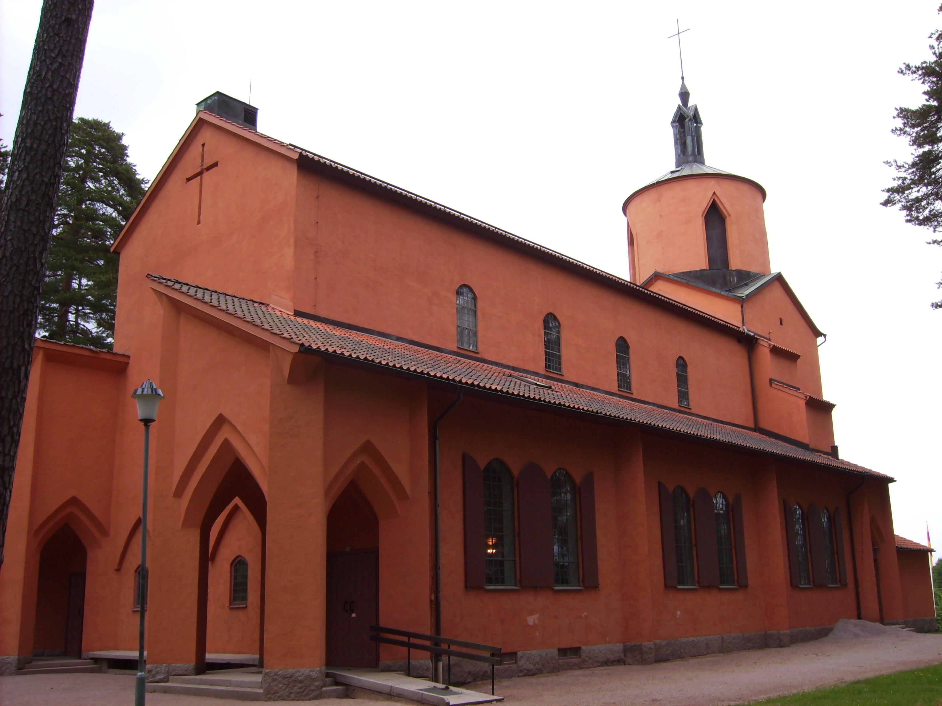 Exterior - Tranås kyrka, Småland. The town Tranås (1919) built a new church 1930, the architect got inspiration from the early Christian basilicas, before that the town people used the church in Säby, 6 km south of Tranås.